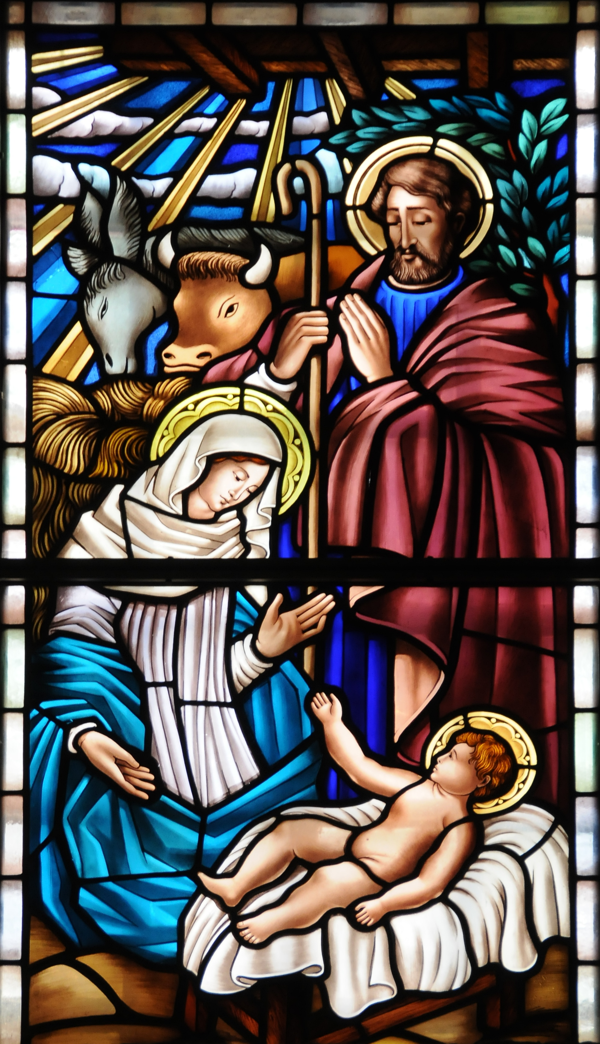 Stained glass window of nativity in Trofa Church, Portugal.